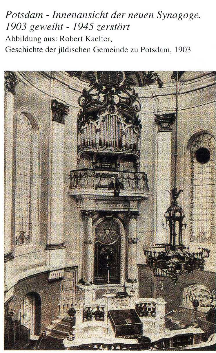 Potsdam Synagoge